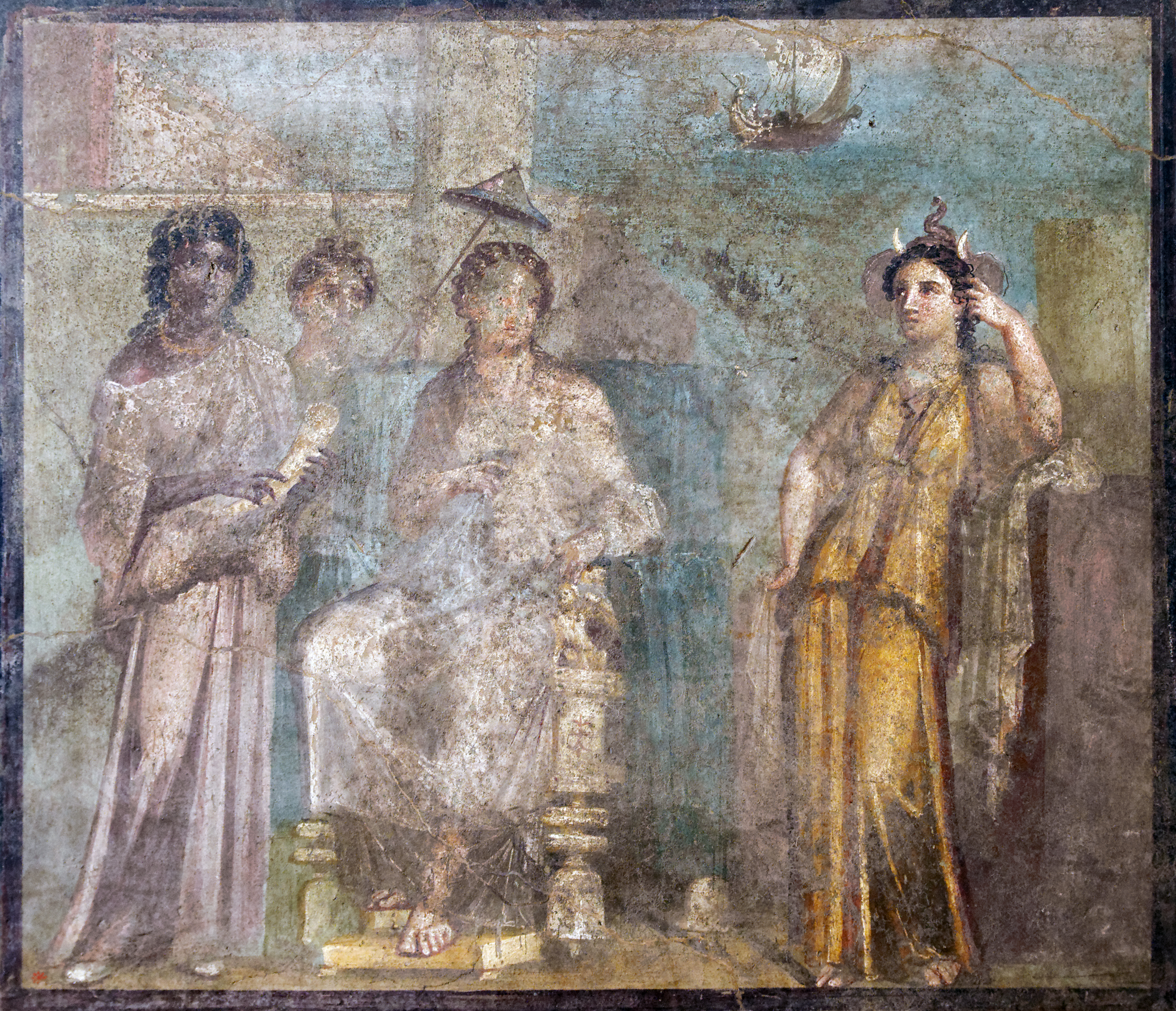 Dido seated on a throne, attended by handmaiden, looking at the personnification of Africa wearing an elephant hide. Aeneas' ship feature in the background.